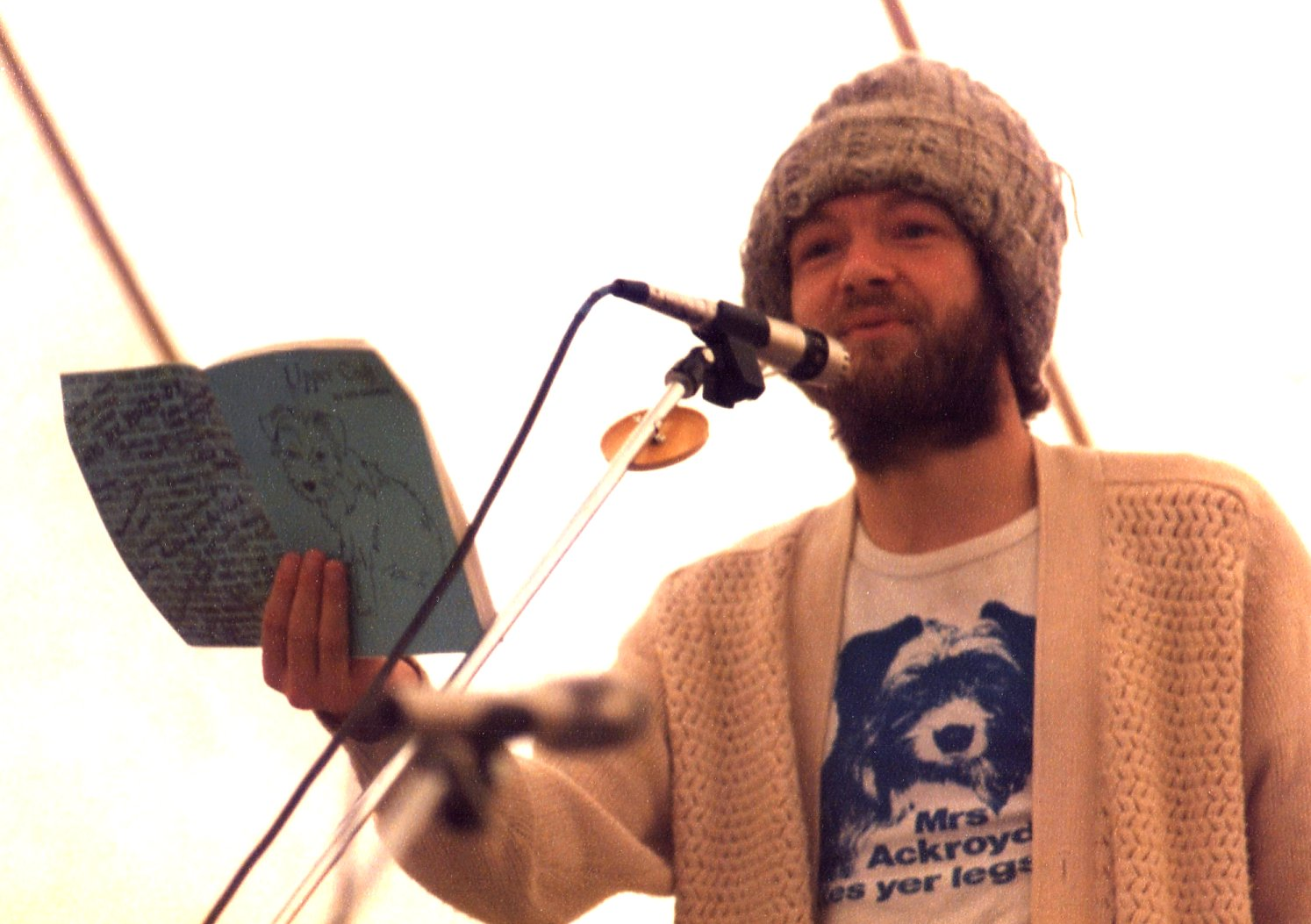 Les Barker, UK folk poet on stage at the 1980 Towersey Festival (Tony Rees photograph)